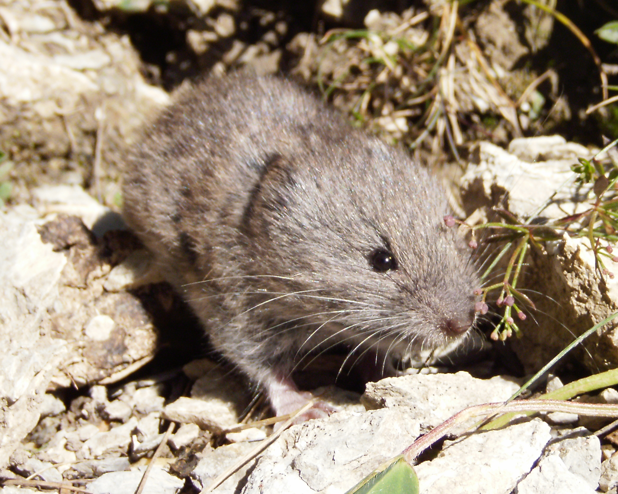 Chionomys nivalis, Wettersteingebirge (Scharnitzspitze), ca. 1100m